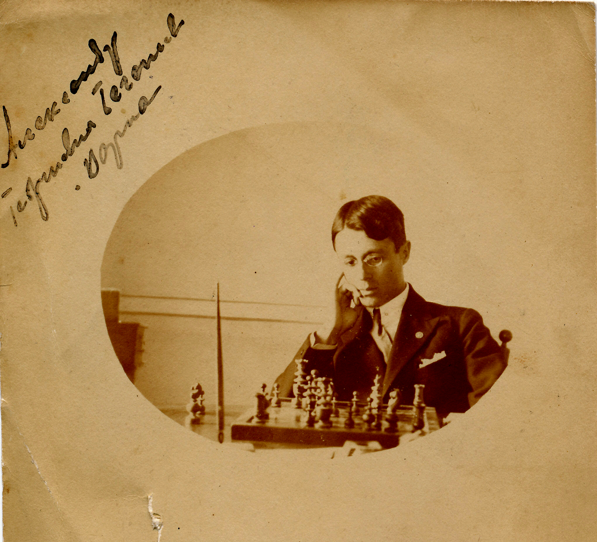 Alexander Begajev - Bulgarian journalist 19.07.1898 - 7.02.1970